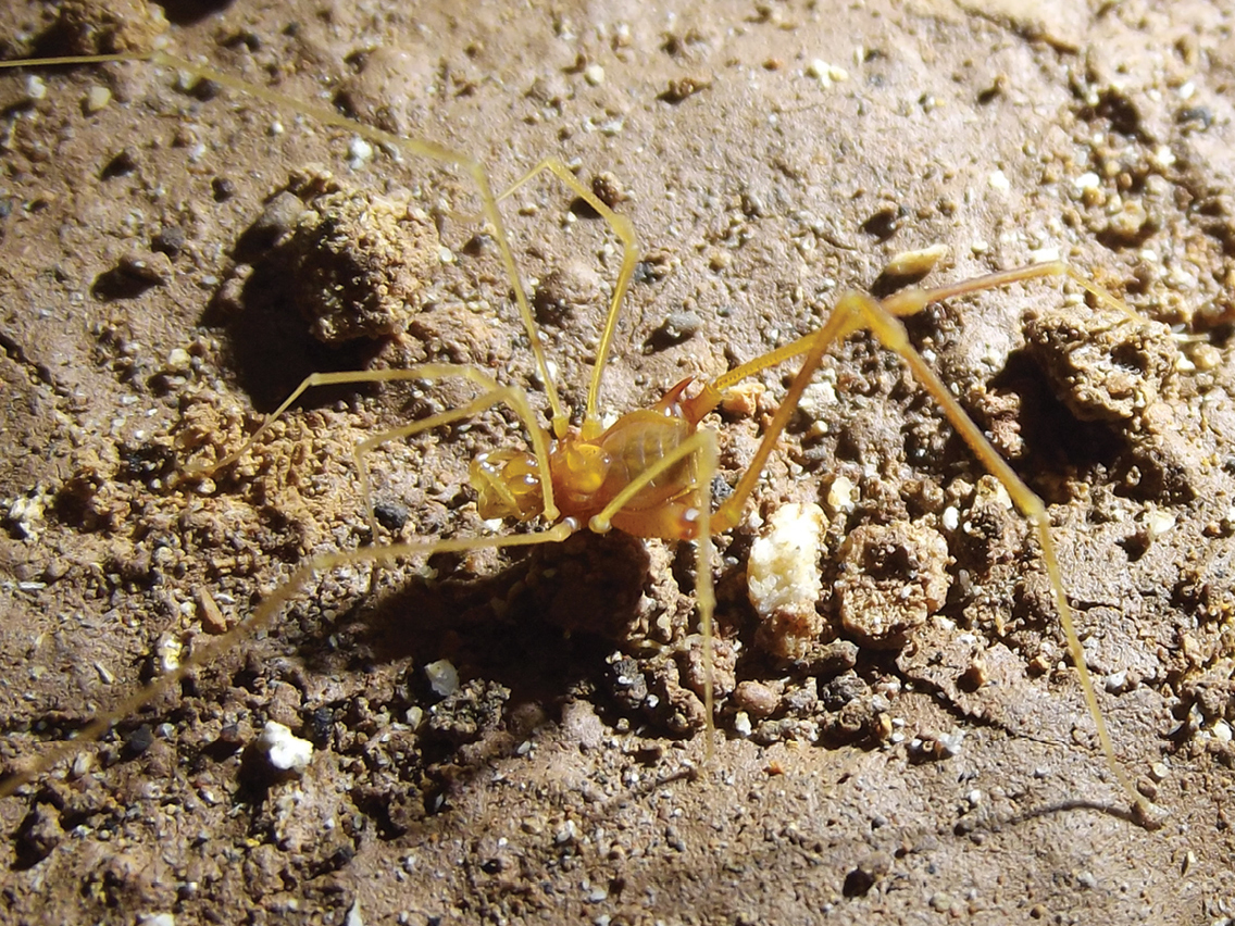 Iandumoema smeagol. Live male specimen foraging in its natural habitat, showing detail of the pale yellowish coloration.